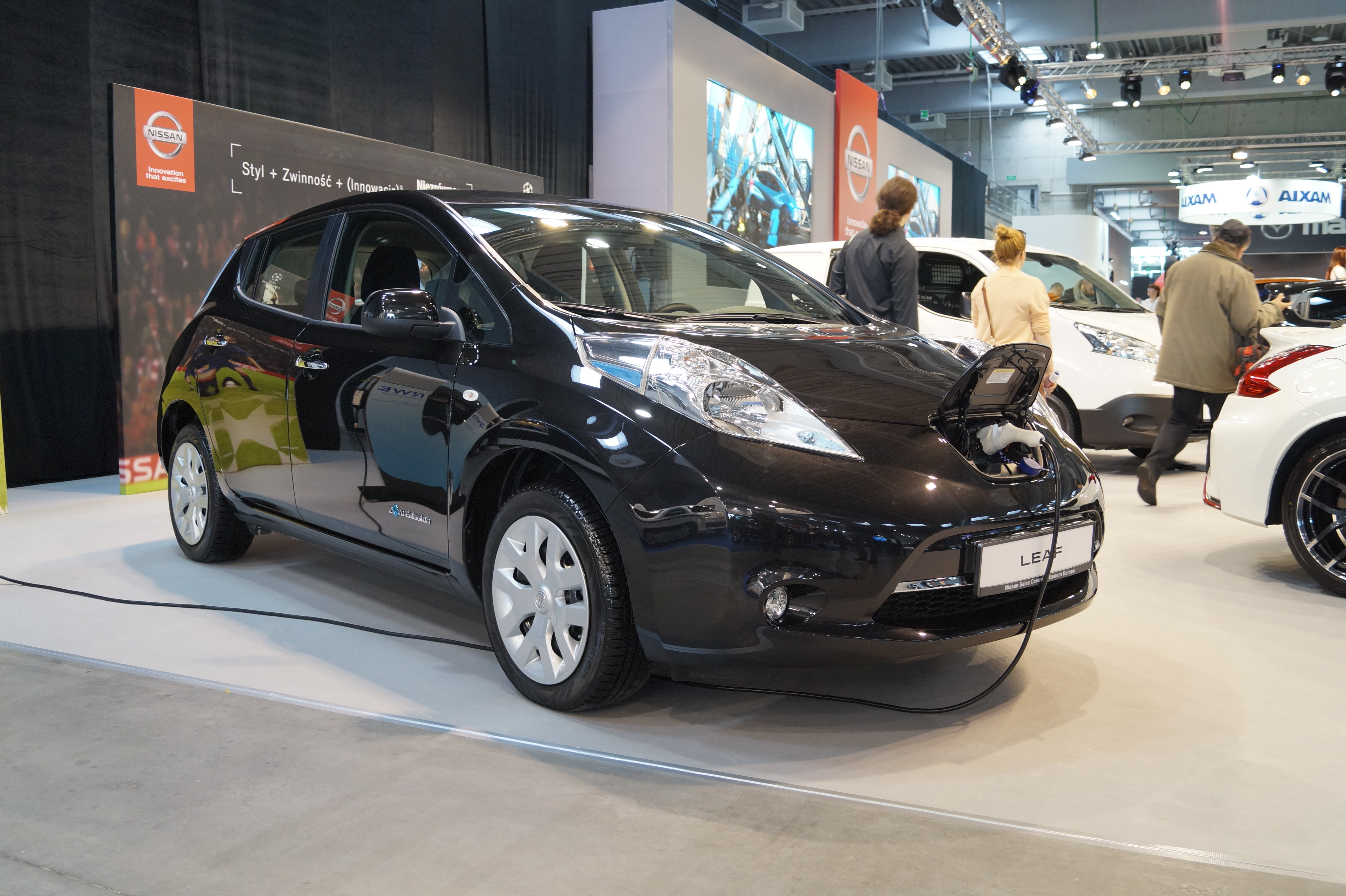 The making of this document was supported by Wikimedia Polska Association, within Wikigrant no. WG 2015-19. Nissan Leaf na Motor Show Poznań 2015